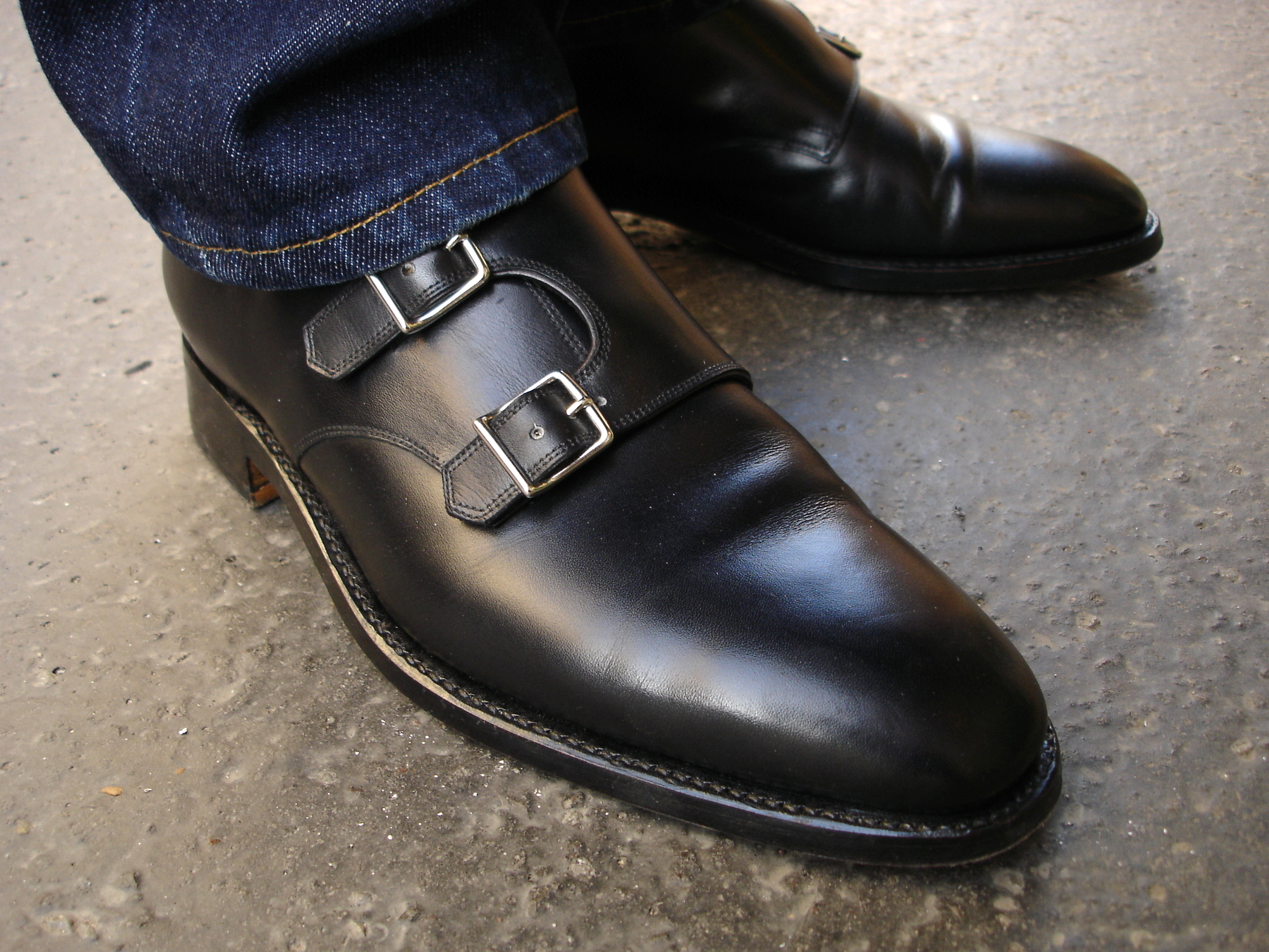 Black double monk strap.